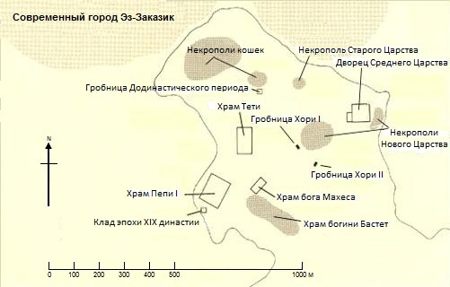 Plan, archaeological monuments in Bubastis.